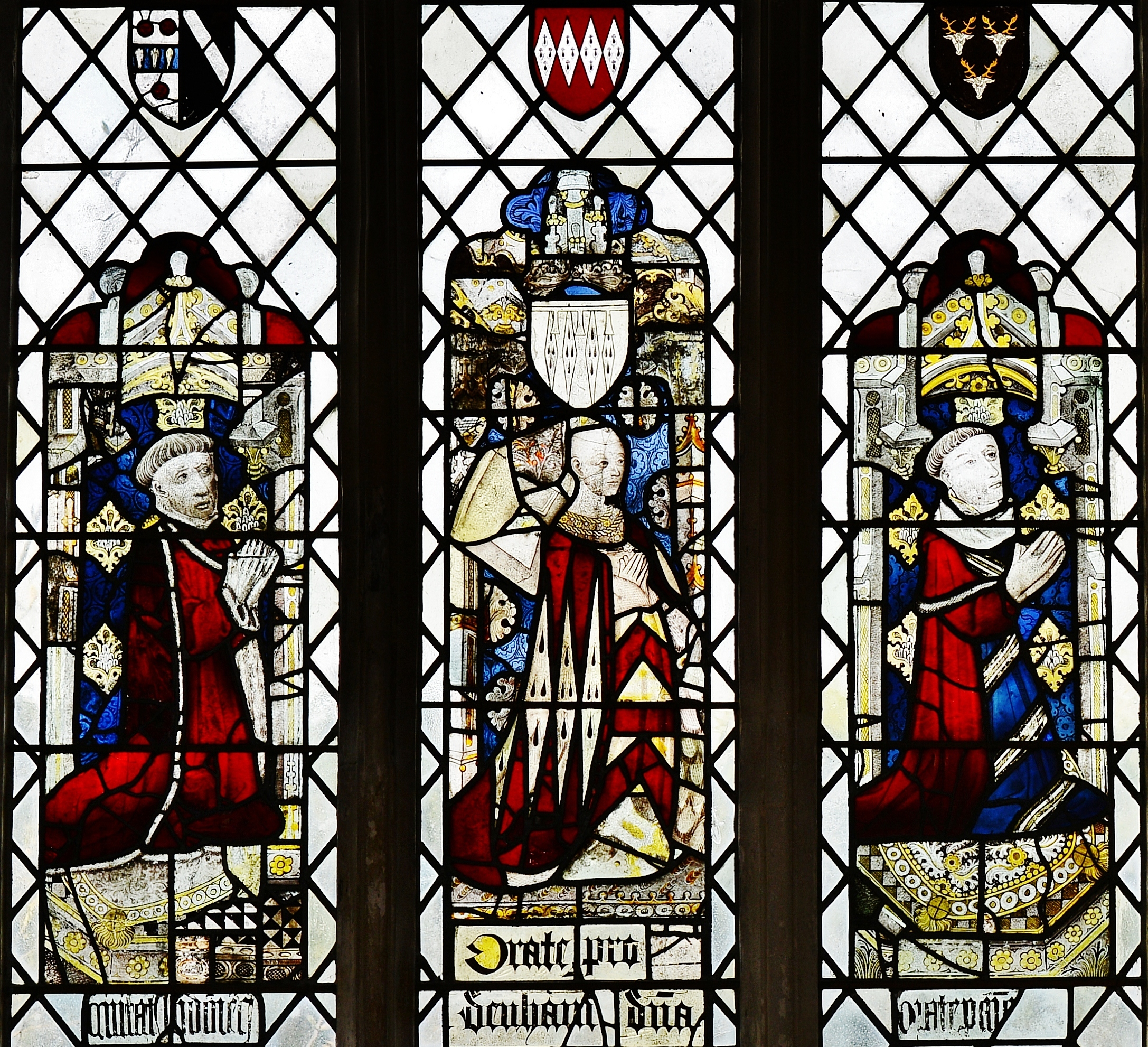 Long Melford; Holy Trinity Church; 15th century glass in the north aisle windows. See File:Stained glass in Holy Trinity, Long Melford (4).jpg for full view and modern identifying descriptions in glass below. Central window: Modern inscription below: "Elizabeth FitzWalter, wife of John, Lord Dinham" (John Dynham, 1st Baron Dynham (c. 1433–1501) of Nutwell in the parish of Woodbury and of Hartland, both in Devon). Dynham arms. A lady praying, with Dynham arms on her outer mantle, with FitzWalter arms on the front of her inner garment. Below Orate pro Denham d(omi)na ("Pray ye all for Lady Dinham"). Right, Modern inscription below: "Robert Cavendish"; the village and former manor of Cavendish is nearby. above kneeling man are the arms of Cavendish, with partial inscription: Orate p(ro) a(n)i(m)a .... ("Pray ye all for the soul...(of)..."). Window at left, Modern inscription below: "John Gedney". Kneeling man with shield above displaying: Argent, on a fess azure between three torteaux two and one three fleurs-de-lys proper (Gedney (?)) impaling: Sable, a bend argent. Unknown.